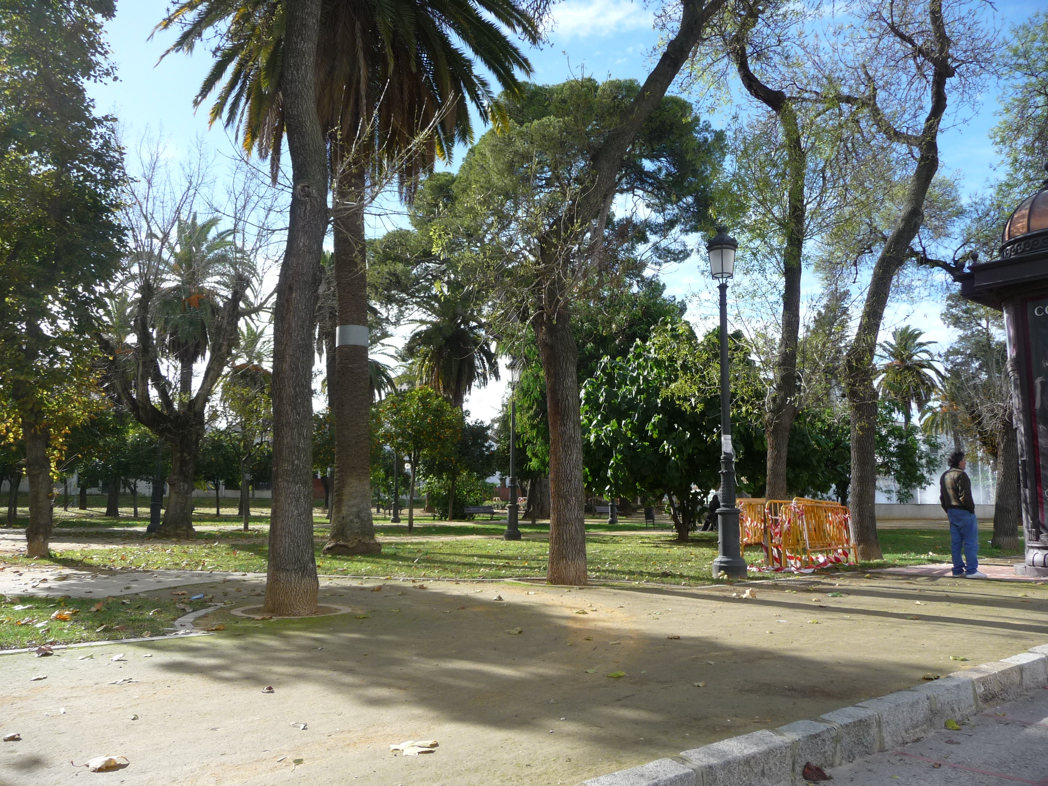 El Retiro park in Jerez de la Frontera